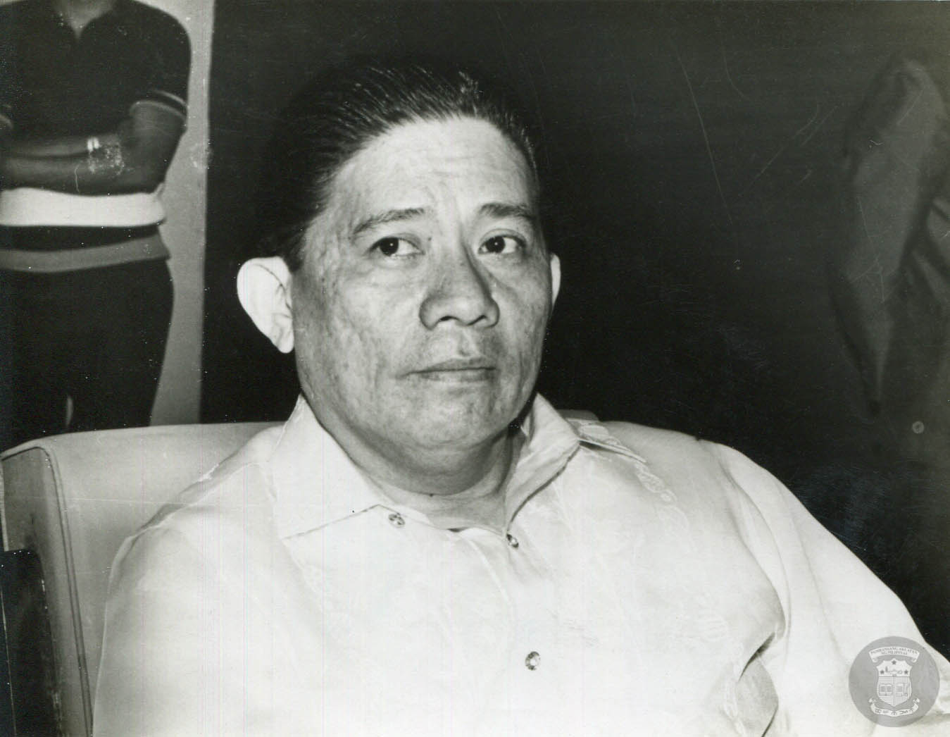 Photo of Rodolfo Ganzon, Senator for the 5th and 6th Congress of the Philippines. Photo circa 1960s